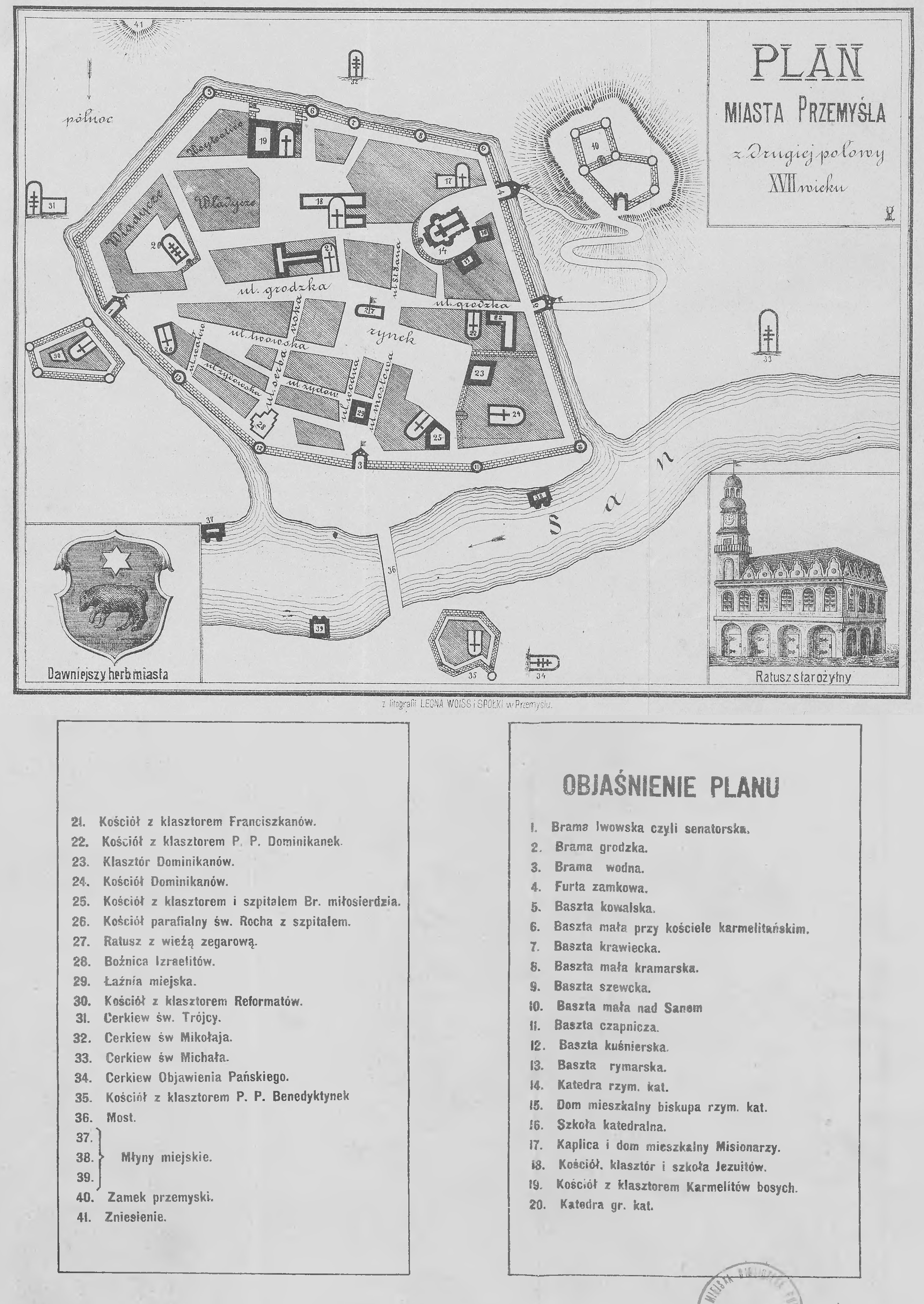 Plan of Przemyśl XVII century